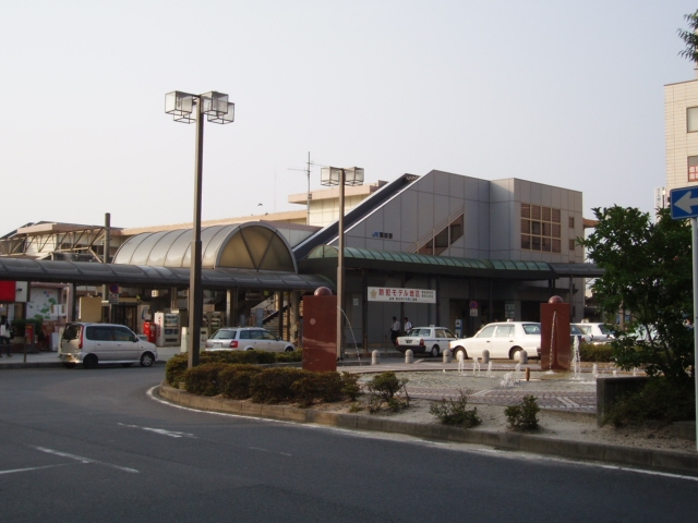 West Japan Railway Tōkaidō Main Line（Biwako Line） Seta Station 西日本旅客鉄道 東海道本線（琵琶湖線） 瀬田駅